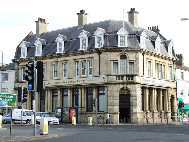 Riby Square, Grimsby A fine example of the work of Grimsby Architect Herbert Charles Scaping 1865 - 1934. This was Smith Ellison's Bank Opened in 1900 (later the National Provincial) at Riby Square.